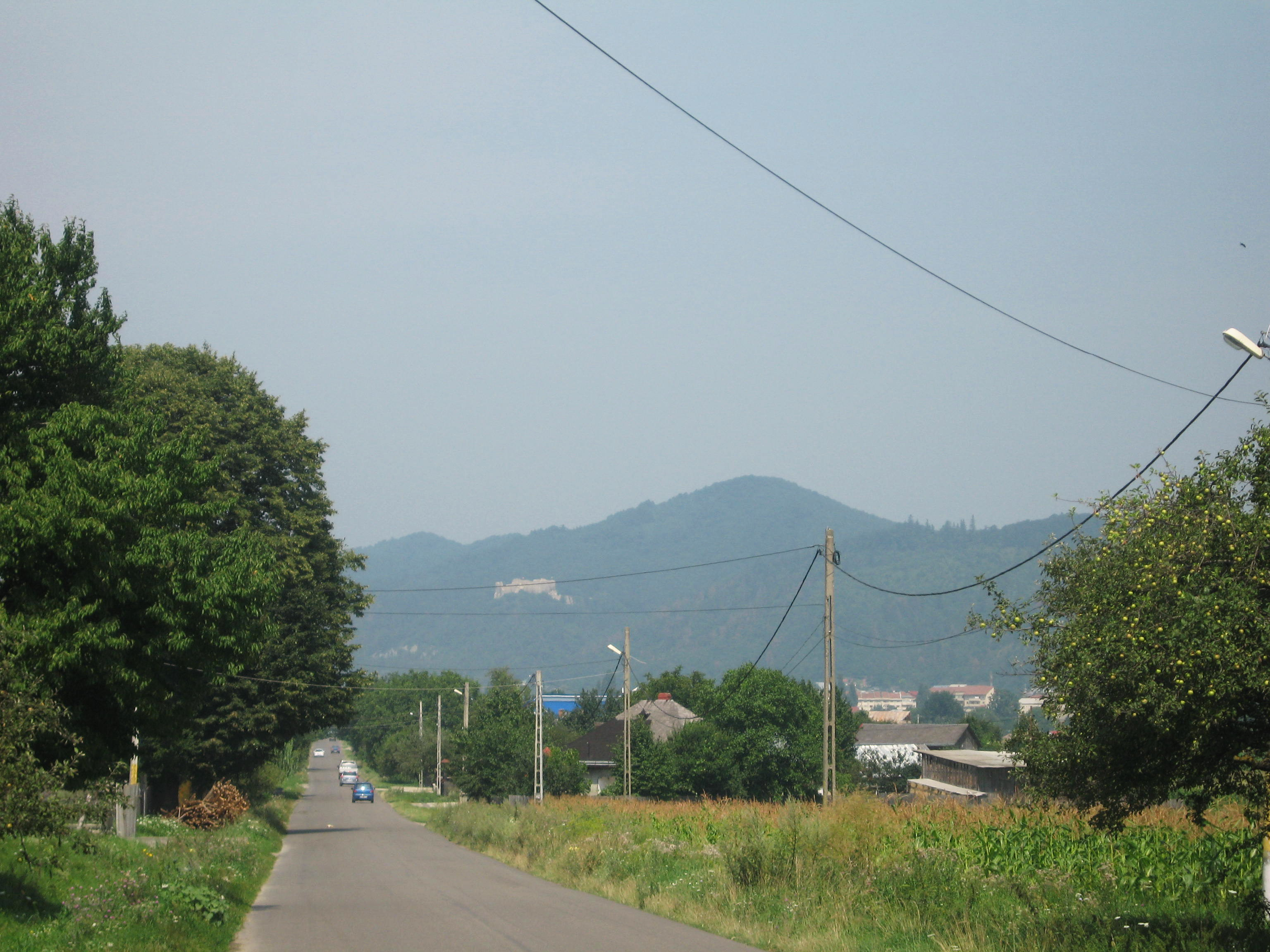 Neamț Citadel